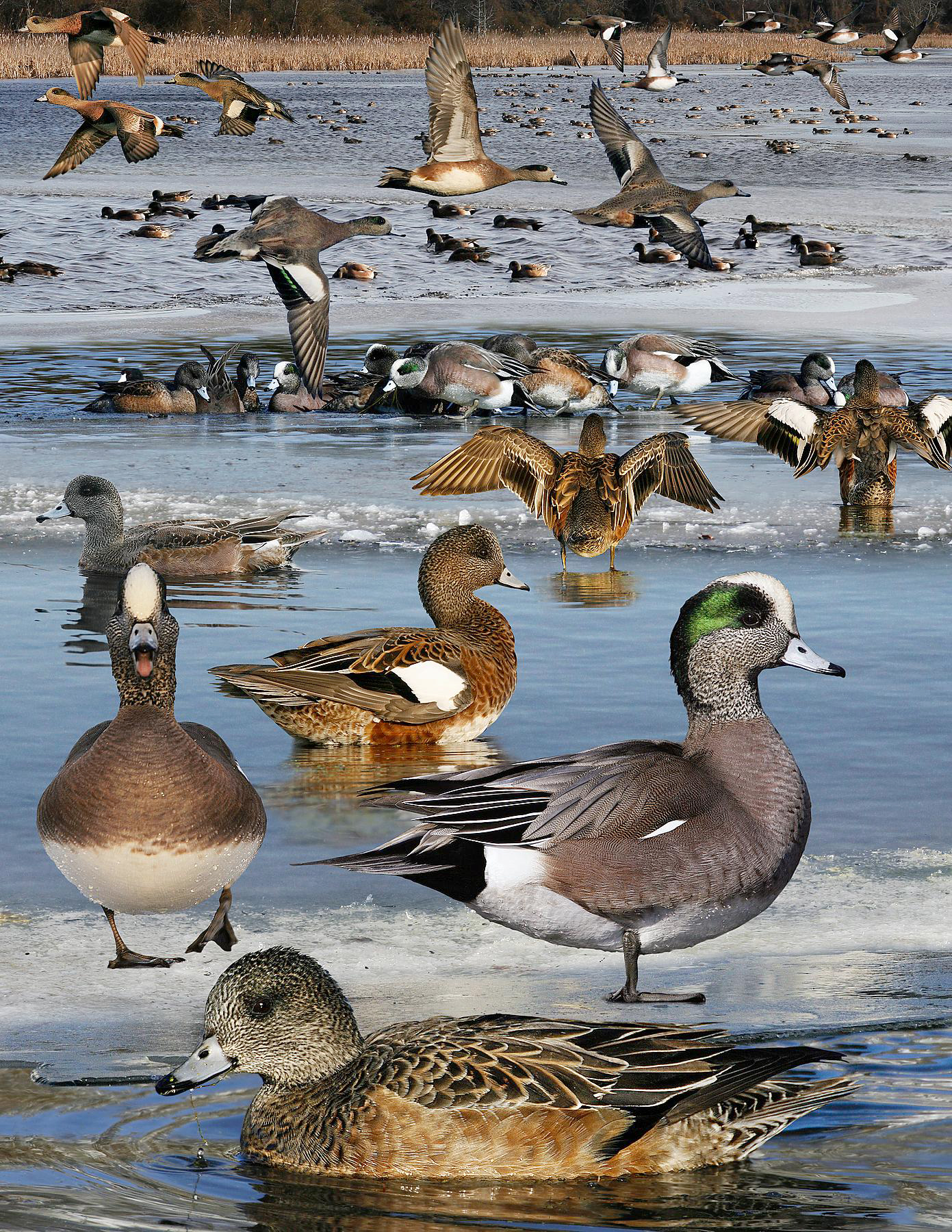 American widgeon From The Crossley ID Guide Eastern Birds